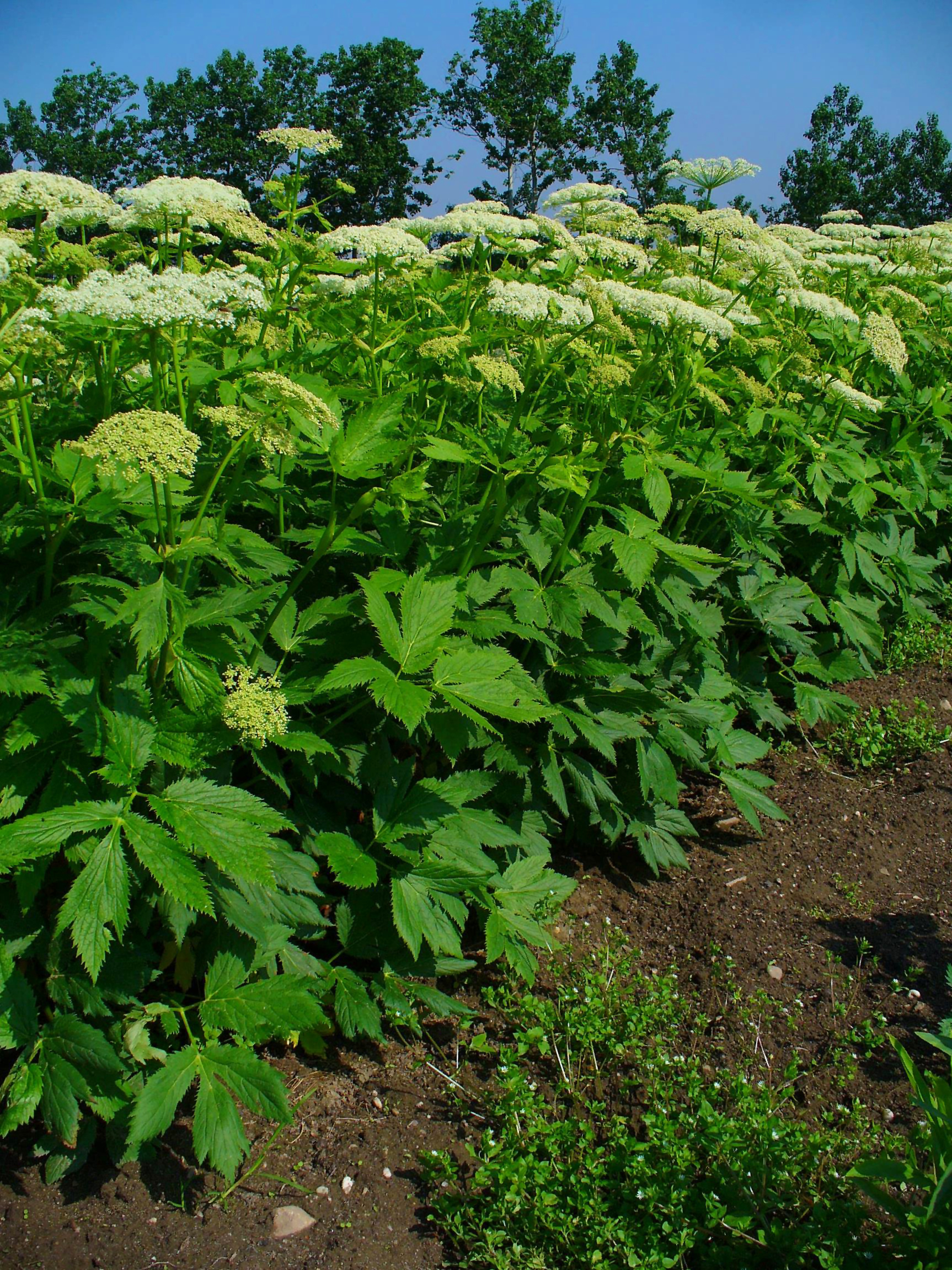 Peucedanum ostruthium, Apiaceae, Masterwort, habitus.